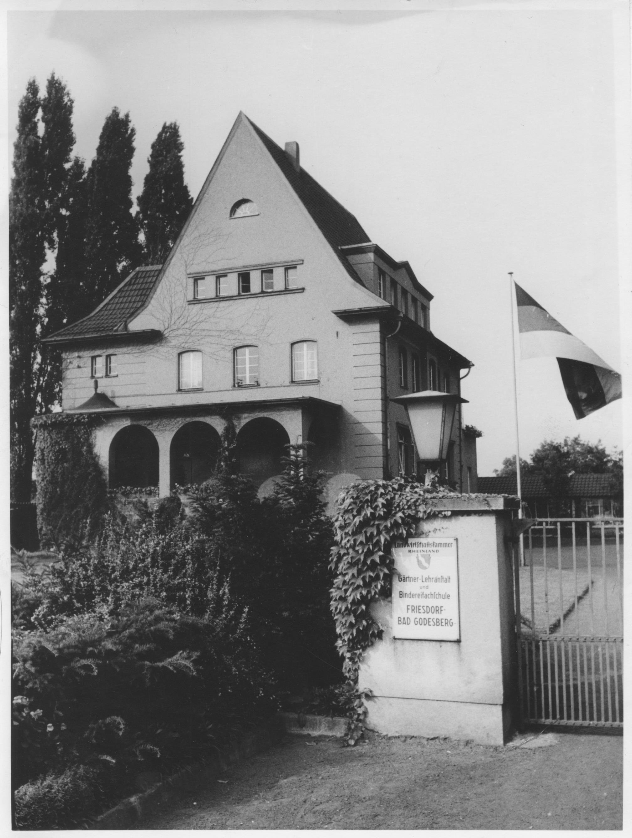 Gärtner-Lehranstalt Friesdorf-Bad Godesberg, entrance with mansion of the director.